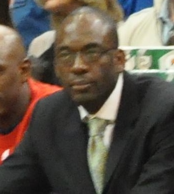 Roy Rogers, Detroit Pistons assistant coach, in 2012 at the Target Center